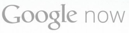 The logotype of Google Now, the Android voice assistant.